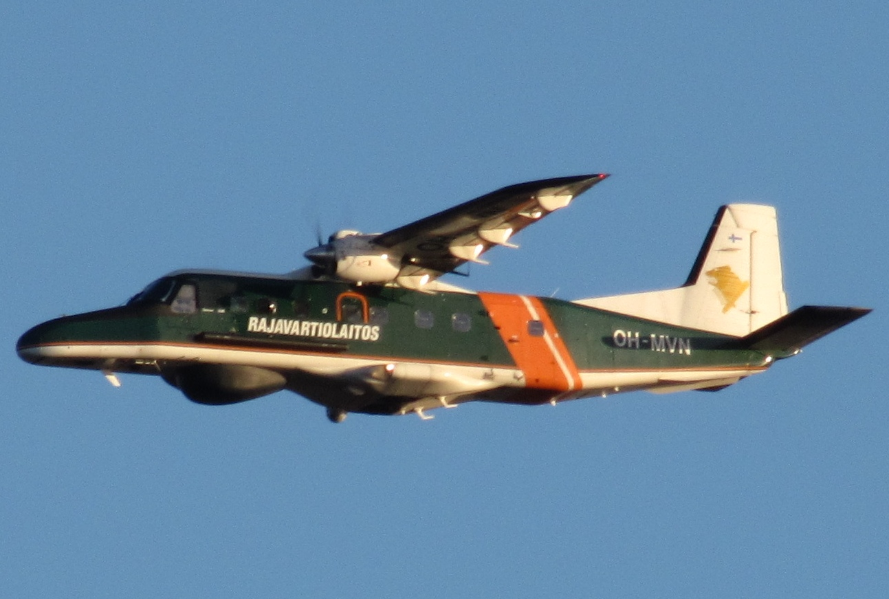 Finnish border guard Dornier Do 228 patrol plane in flight above Suomenlinna.